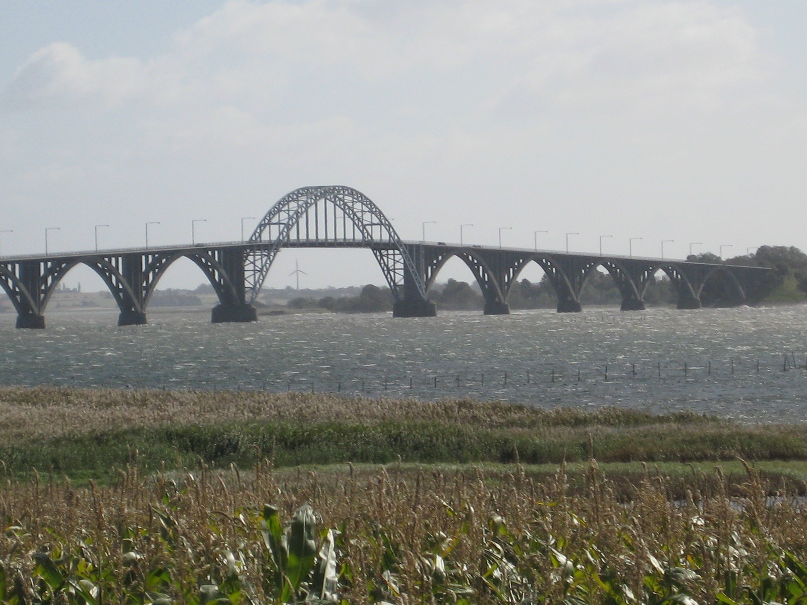 The Queen Alexandrine Bridge in Denmark